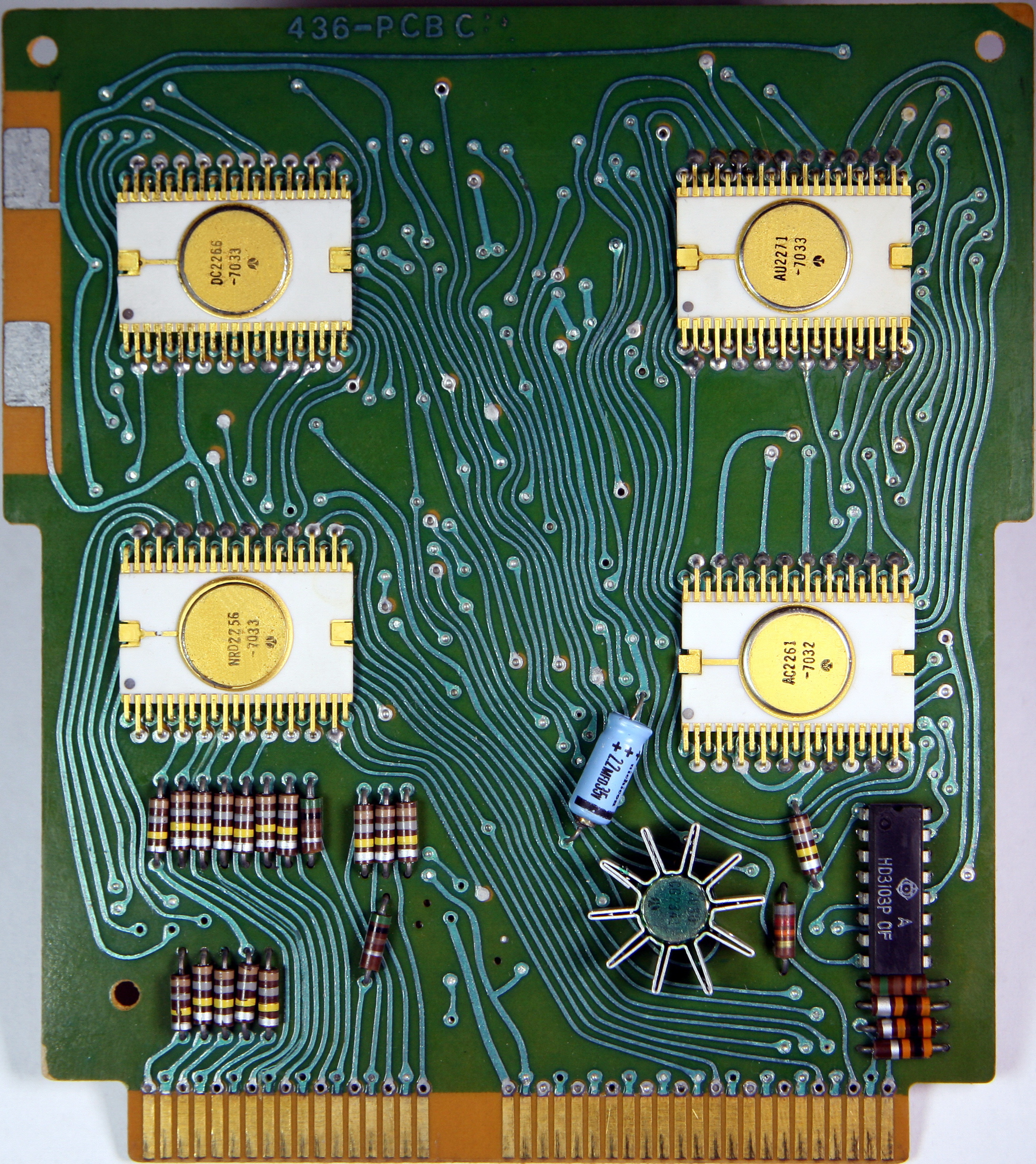 The ICs based on their function: The NRD 2256 handles numerical read-in and display, converting keyboard scan-codes into digit values and activating the various display tube segments based on digit values. The DC 2266 does decimal-point control, performing the automatic floating-decimal logic and aligning decimal points for arithmetic operations. The AC 2261 controls the arithmetic and provides the registers the AU 2271 performs the arithmetic (using a digital adder) and controls input to the registers